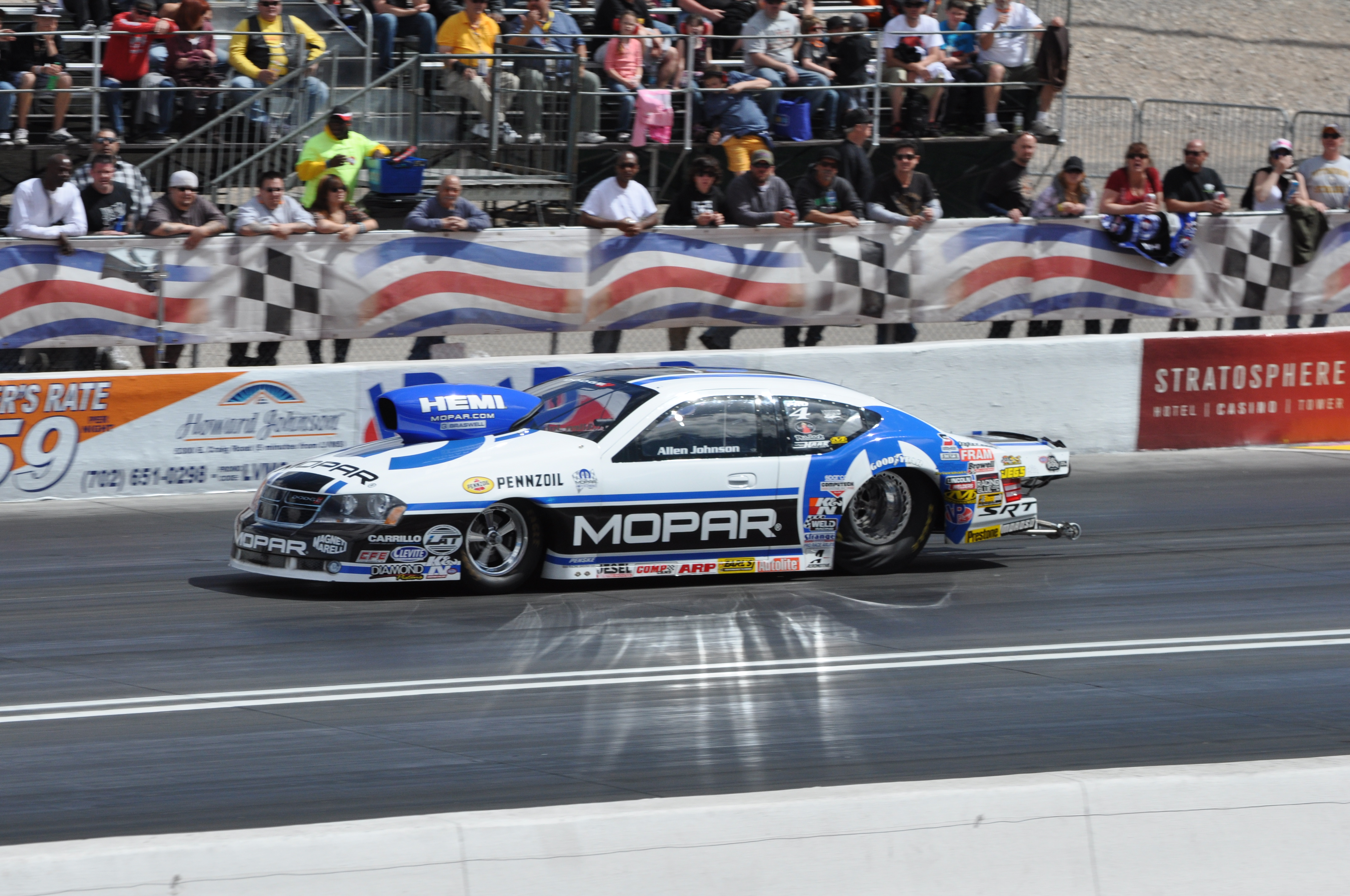 Alan Johnson Racing his Mopar Dodge Avenger at LVMS April 1st 2012